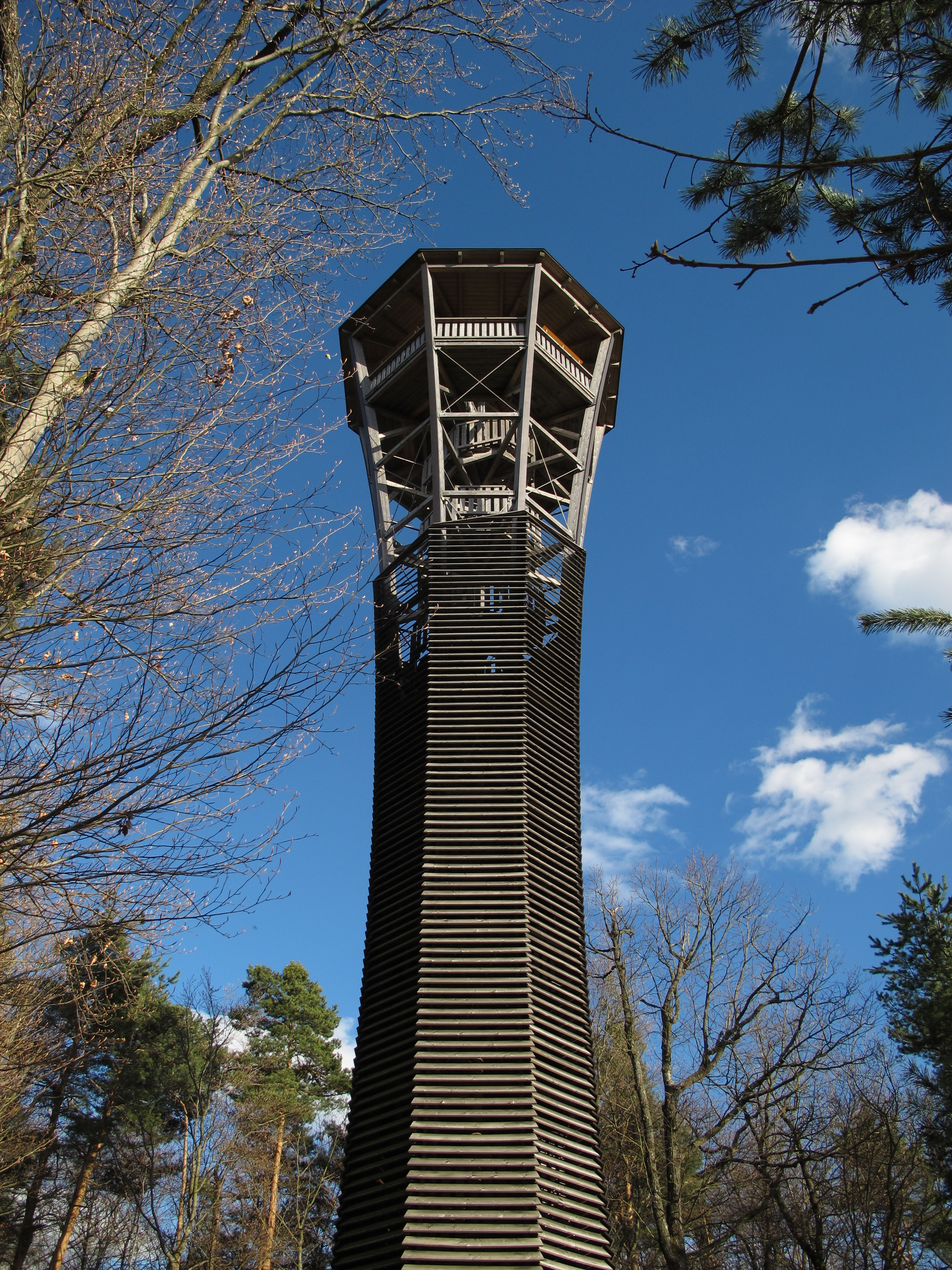 Weinwarte St. Peter am Ottersbach